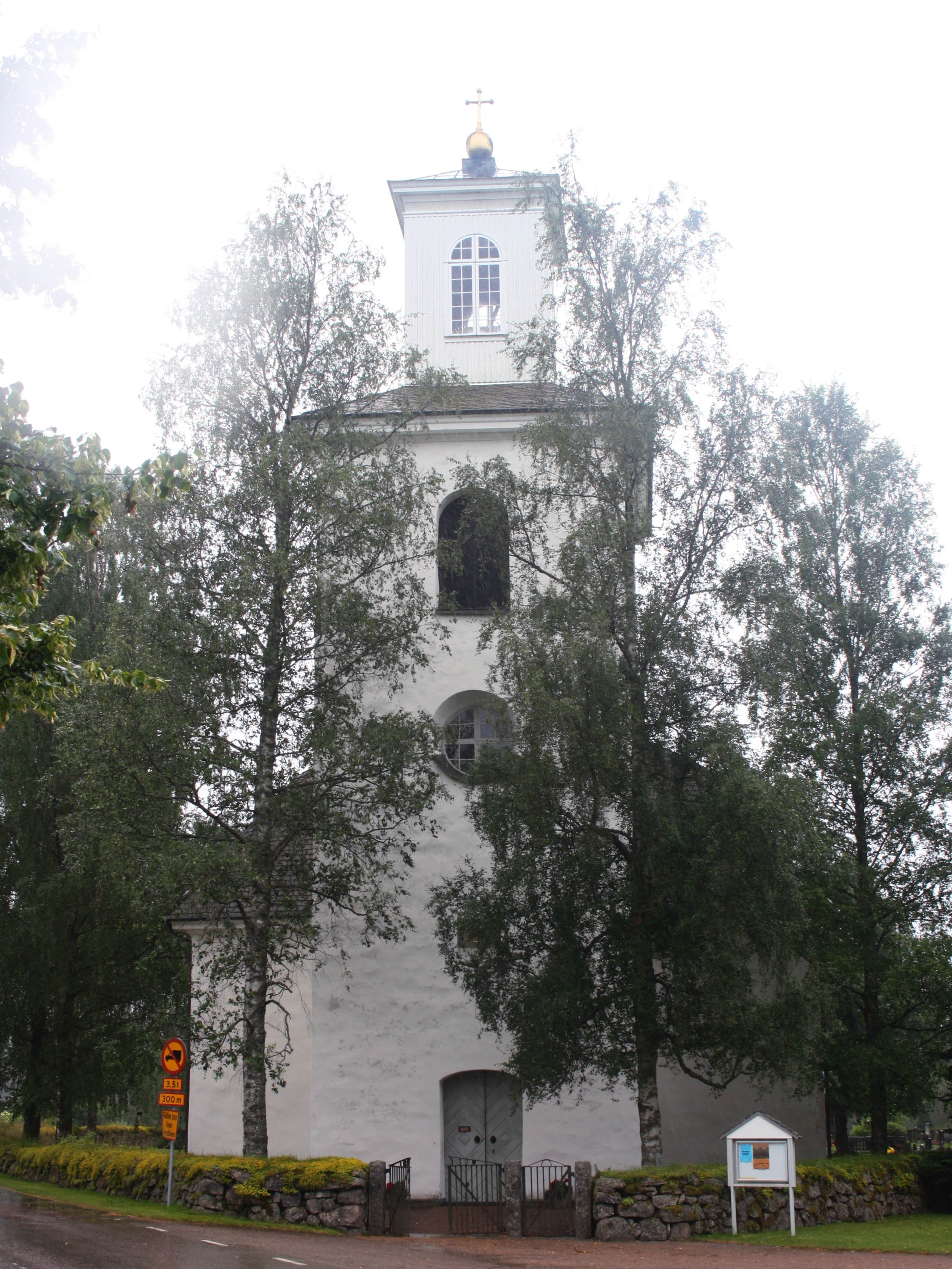 Norra Råda in Hagfors kommun, Sweden. Parish church from North.